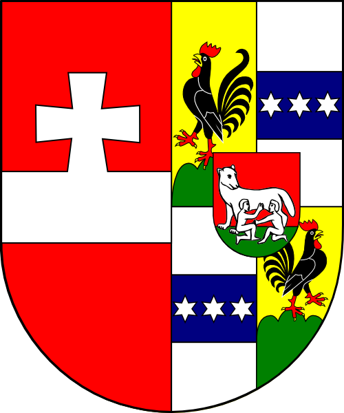 Coat of arms (shield only) of Franz Ferdinand von Rummel, bishop of Vienna (1706 - 1716).